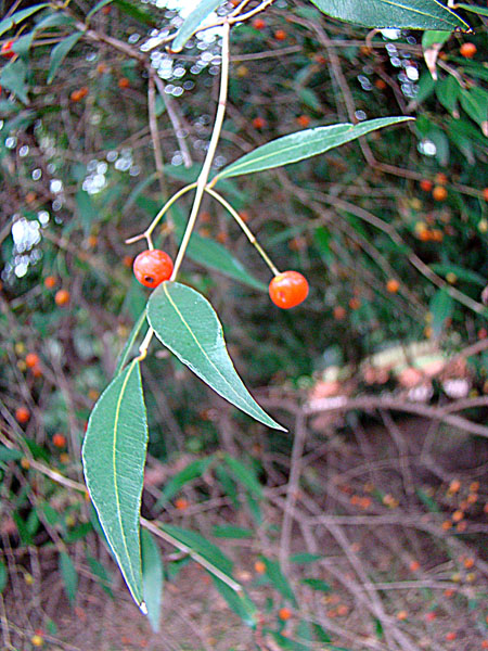 Fruit of the widely scattered Anacahuita. In context at